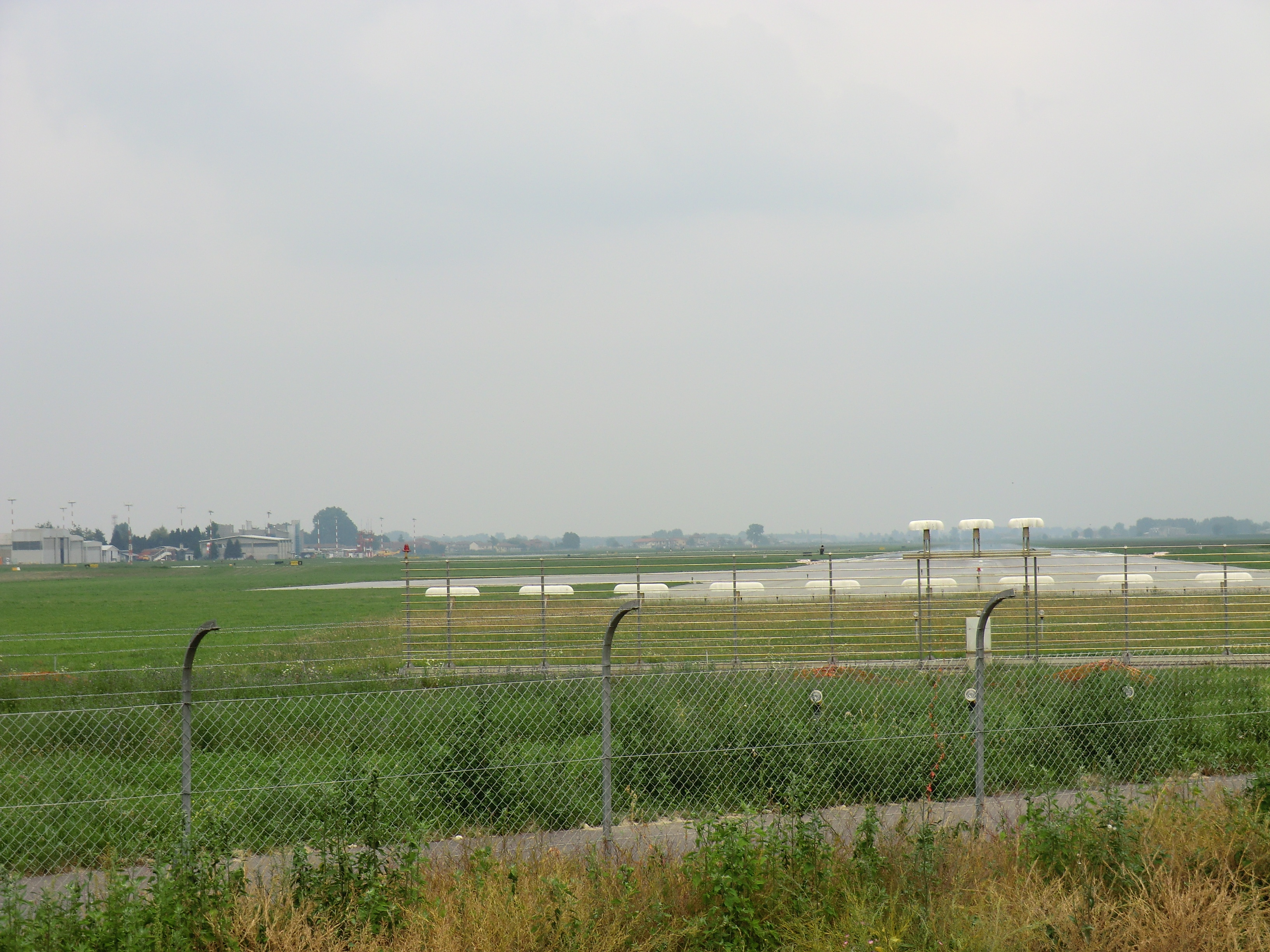 Cuneo Levaldigi Airport